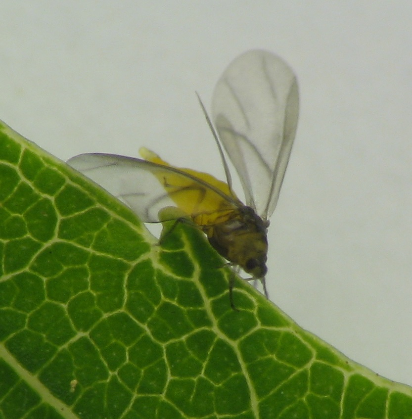 Gall maker, Phylloxera sp. on pignut hickory tree, winged adult. Size: ~ 1 mm or less. Horsham trail, Montgomery County, Pennsylvania, USA.